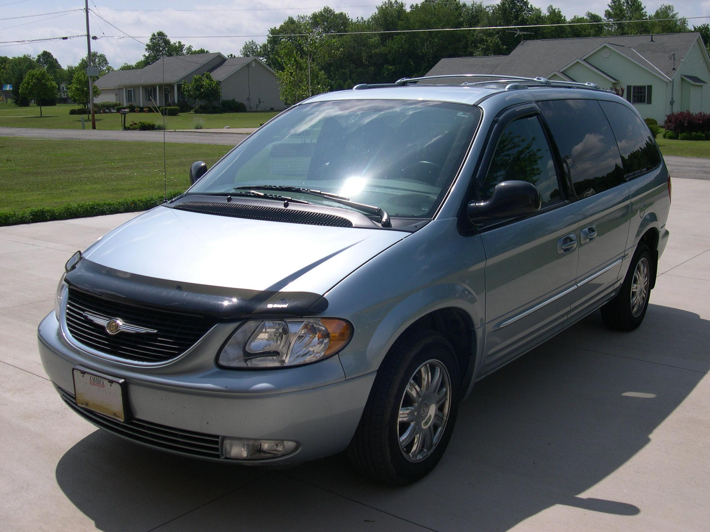 2004 Chrysler Town and Country